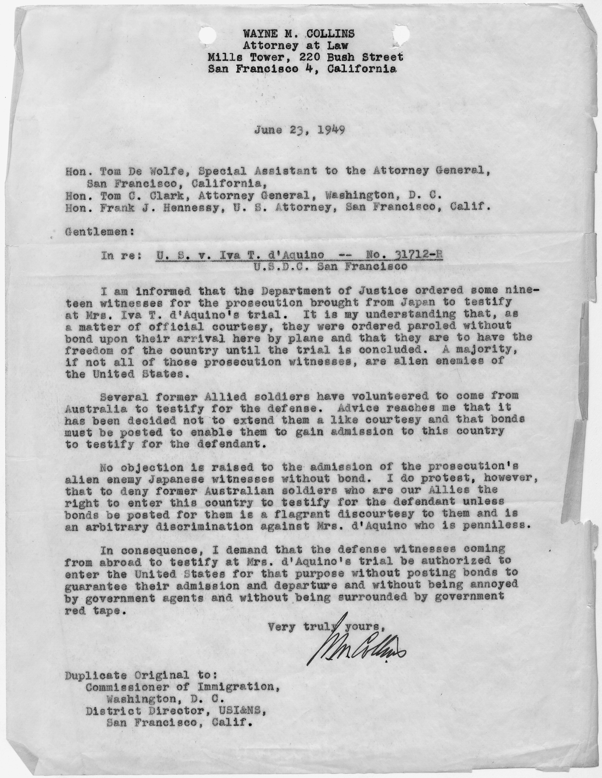 Scope and content: This document relates to the controversial trial and conviction of Japanese American Iva Ikuko Toguri D'Aquino, identified by the U.S. Government as one of the women known as "Tokyo Rose" who were retained by the Government of Japan to make radio broadcasts of music and commentary to U.S. military personnel serving in the World War II Pacific Theater.